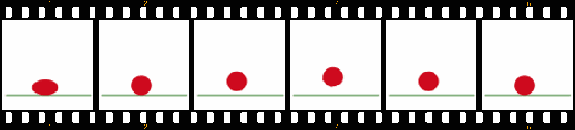 Third in a series of three example images about animation.